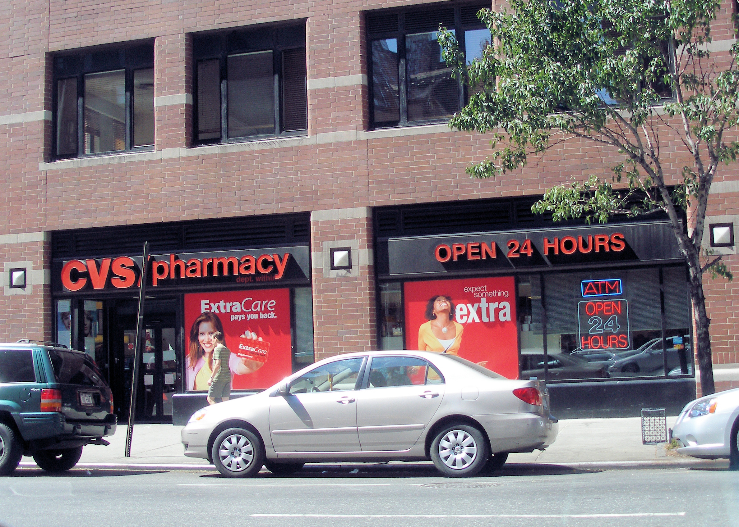 A CVS/pharmacy in Manhattan, New York City, New York, which features 24/7 shopping hours.